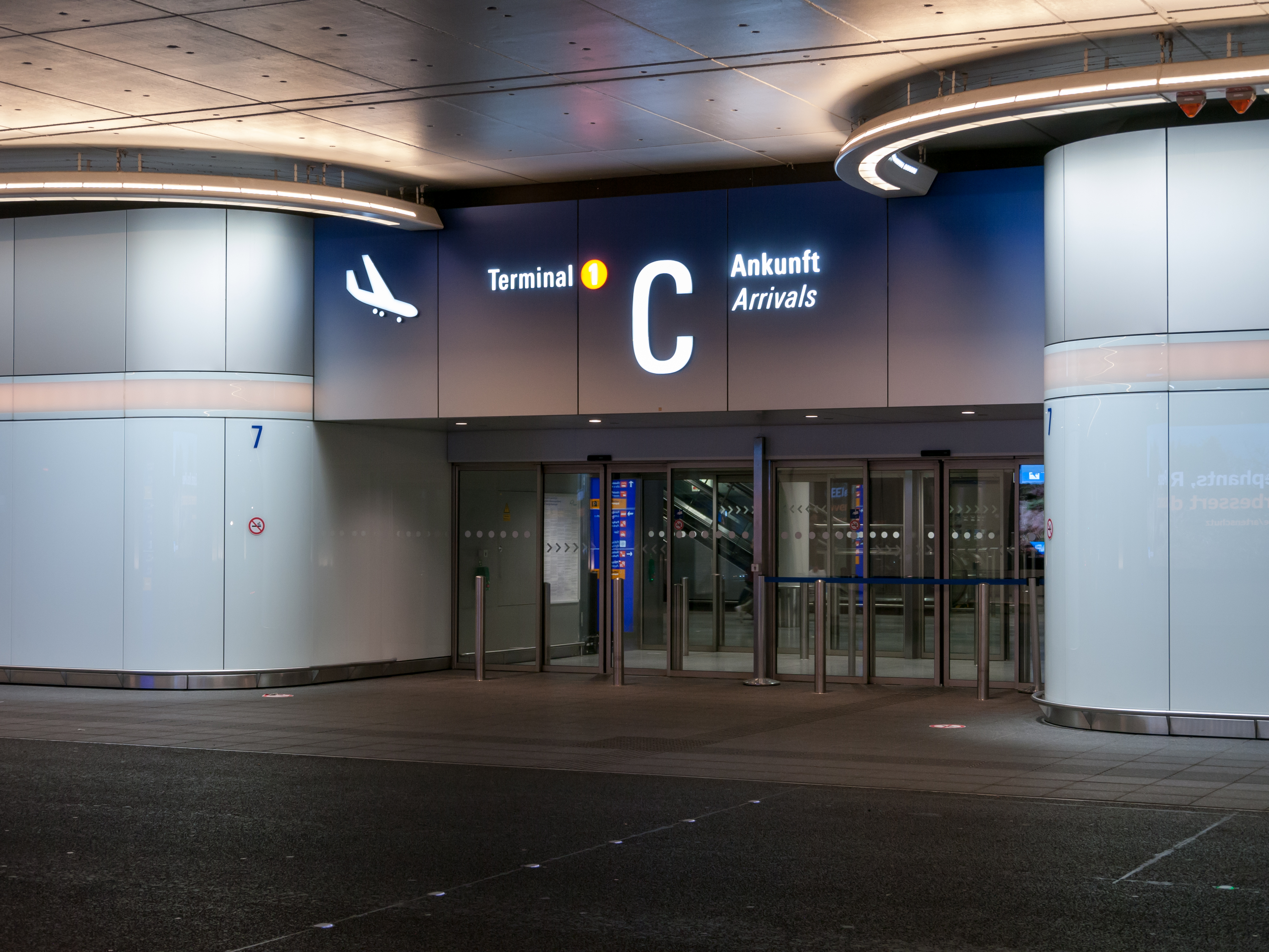 Frankfurt Airport Arrivals